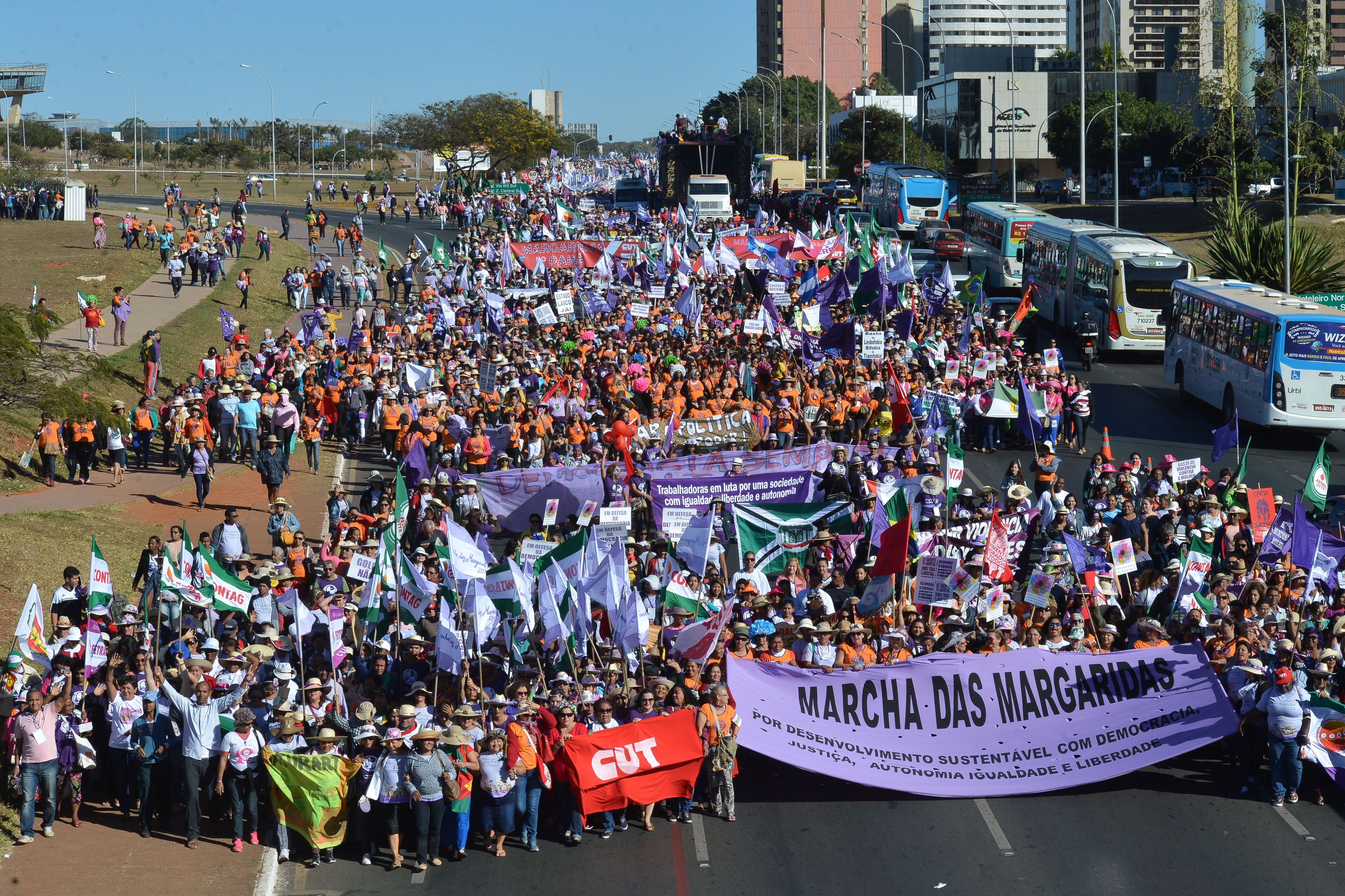 Photo by José Cruz/Agência Brasil CCBY3.0